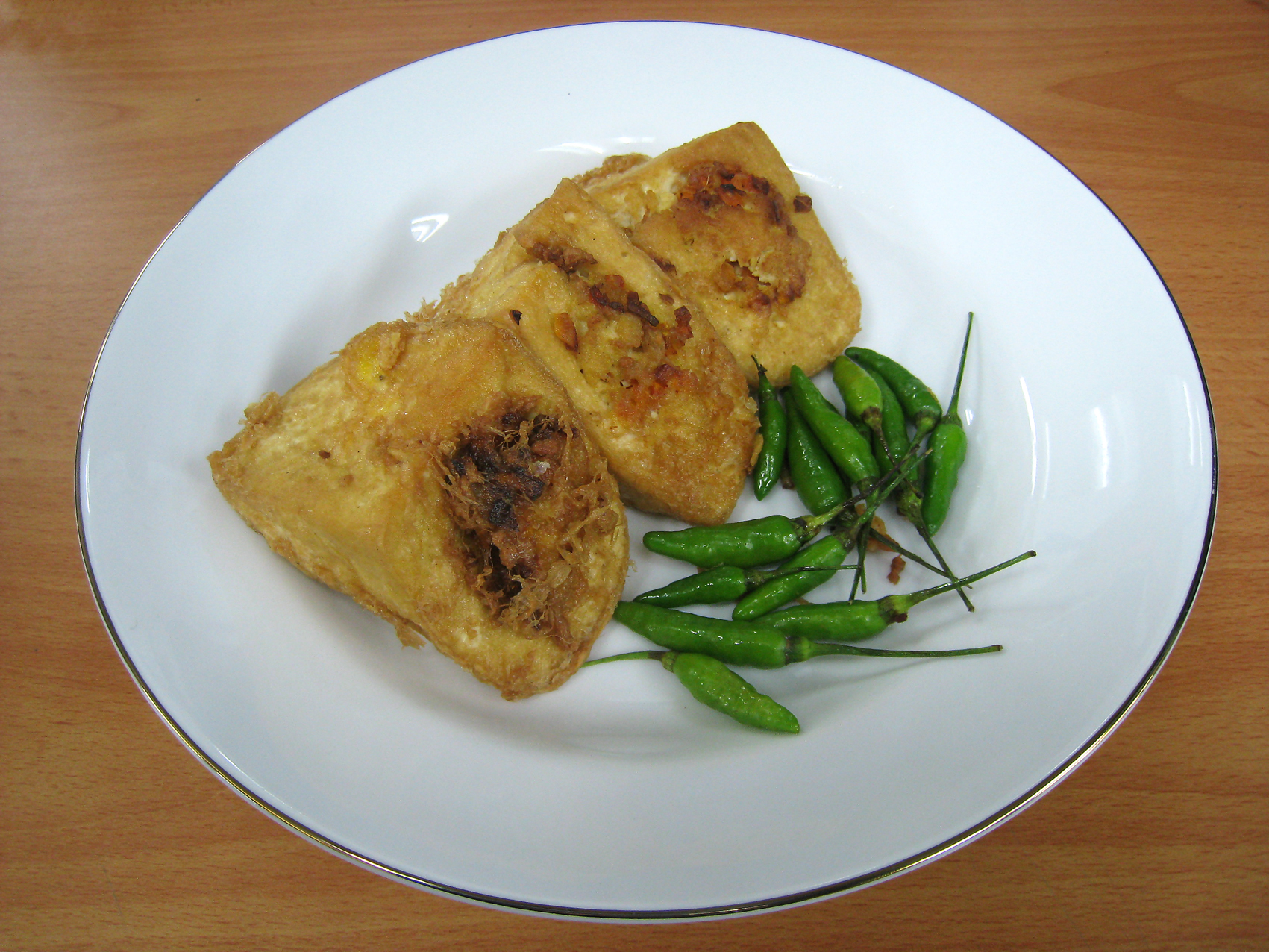 Fried tofu with filling served with bird eyes chillies.